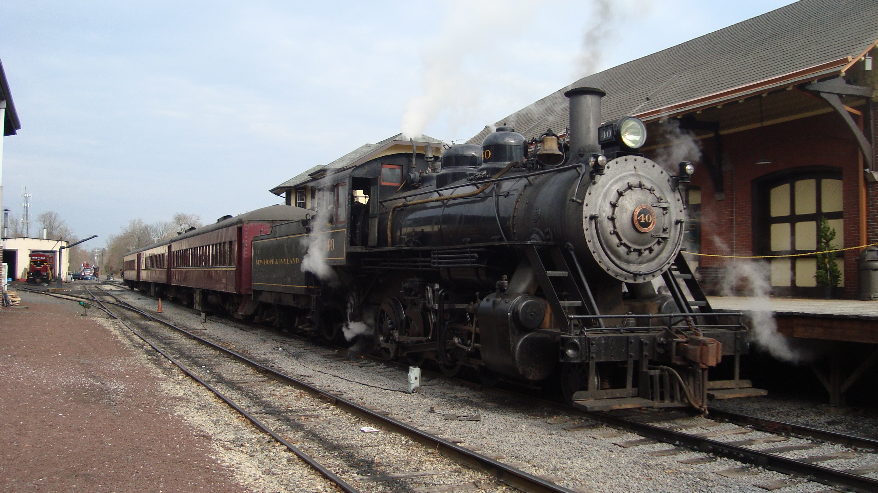 New Hope & Ivyland 40 waiting for the first run of the day.